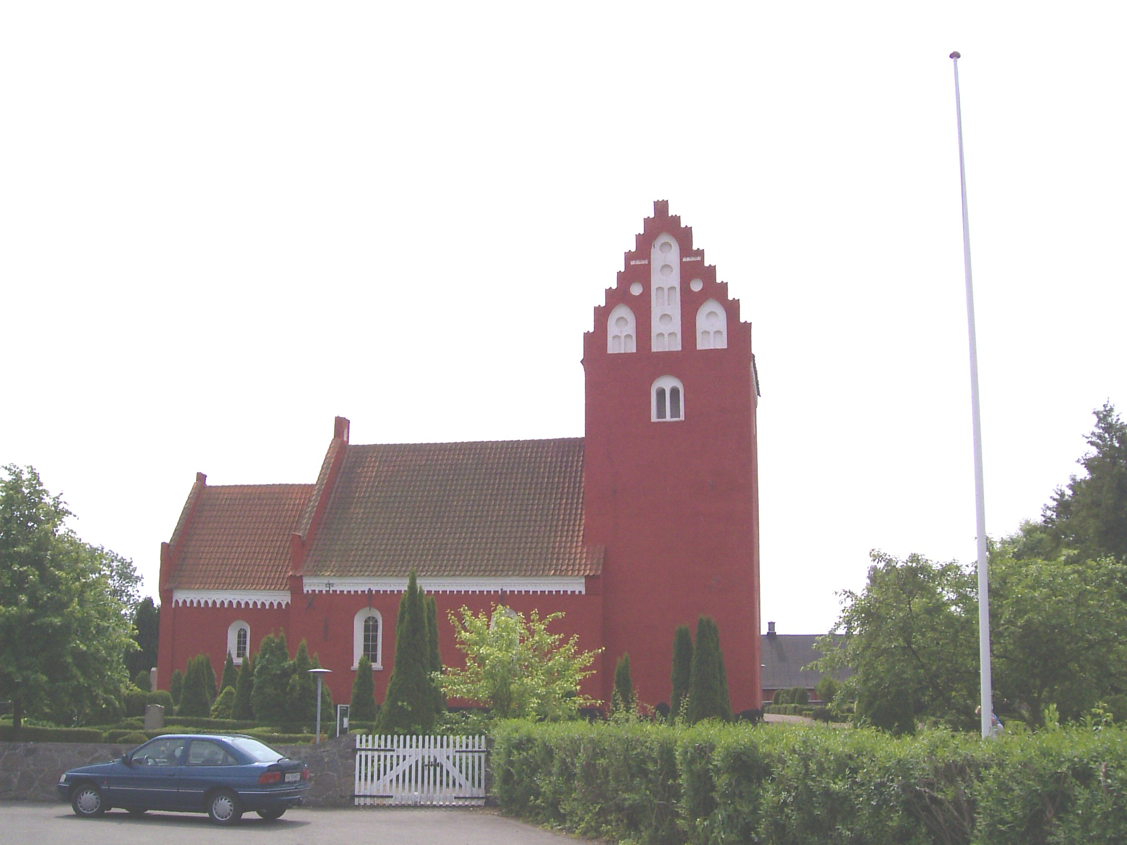 Church in Fjelde, Community of Sakskøbing, diocese of Lolland-Falster. Date: 2006.07.12 Author: Sir48